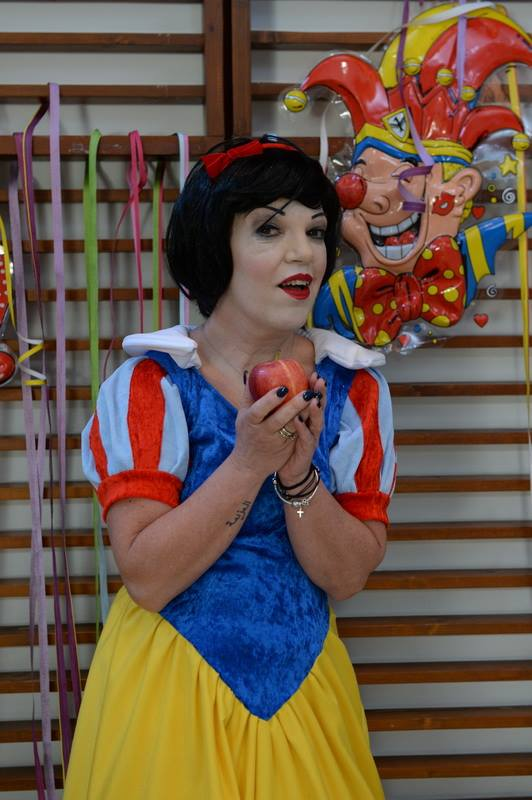 Marlow's Snow White at the Limassol Carnival Festival, 2017